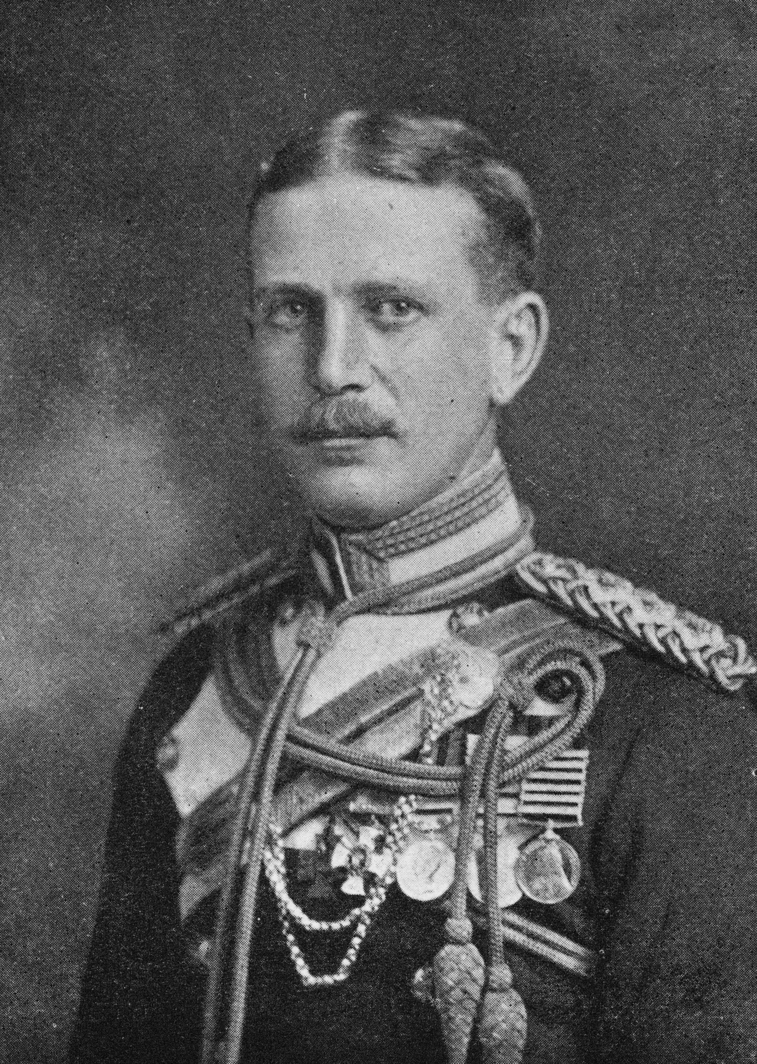 Victoria Cross Winners- Pre 1914 Lieutenant Francis Aylmer Maxwell, Indian Staff Corps, attending Robert’s Light Horse, awarded the Victoria Cross, Sanna’s Post, South Africa, 31 March 1900.